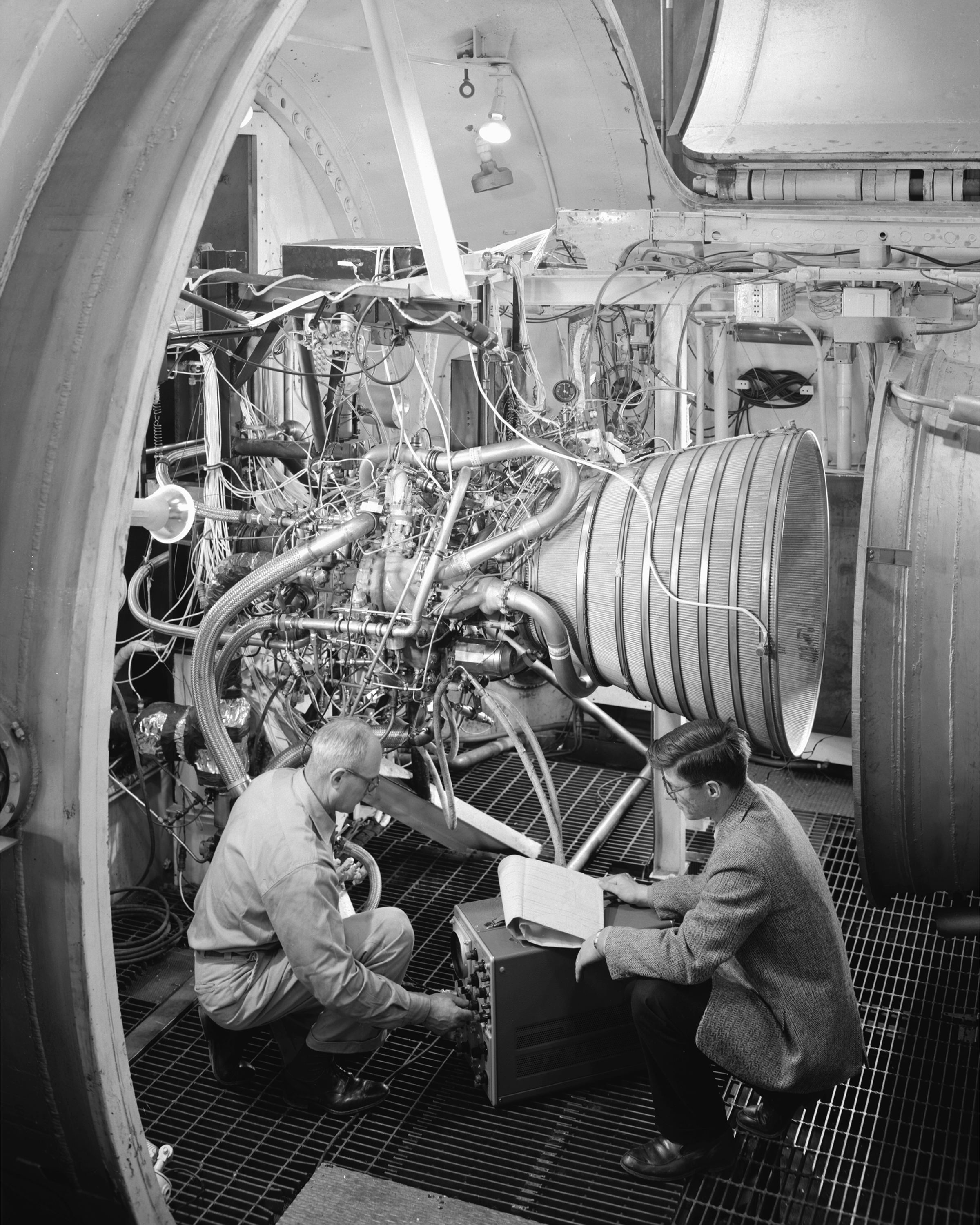 Centaur Rocket Installation in PSL - Propulsion Systems Laboratory #1. The RL-10 Rocket was developed by Pratt and Whitney in the late 1950's and tested at the Lewis Research Center (now known as the John H. Glenn Research Lewis Field). This power plant was the propulsion system for NASA's upper stage Centaur rocket and was significant for being the first to use liquid hydrogen and oxygen as fuel. The Centaur suffered a number of early failures, but later proved to be a very successful upper stage for numerous commercial, NASA and military payloads.